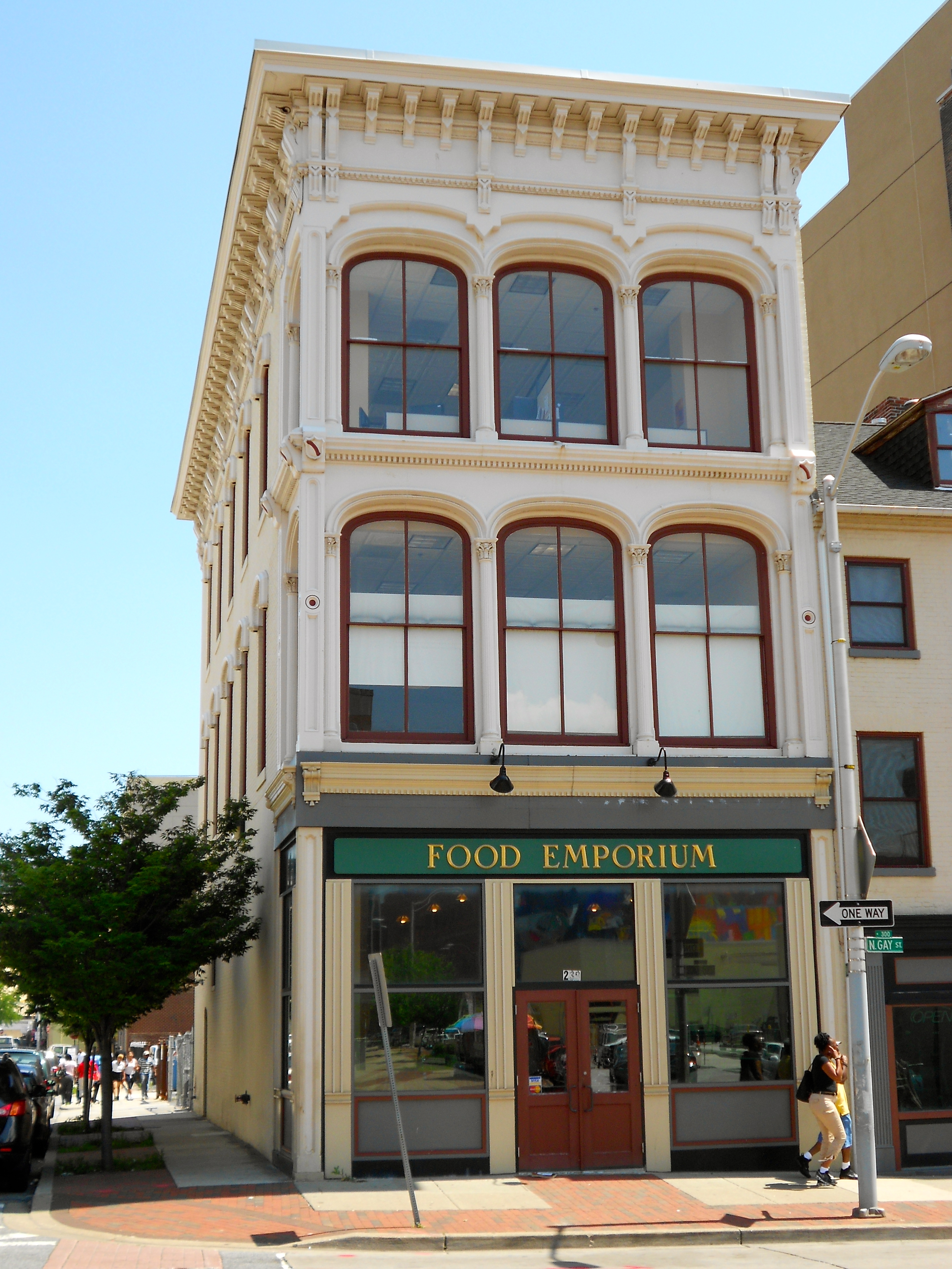 239 Gay Street, Baltimore. Listed on the NRHP